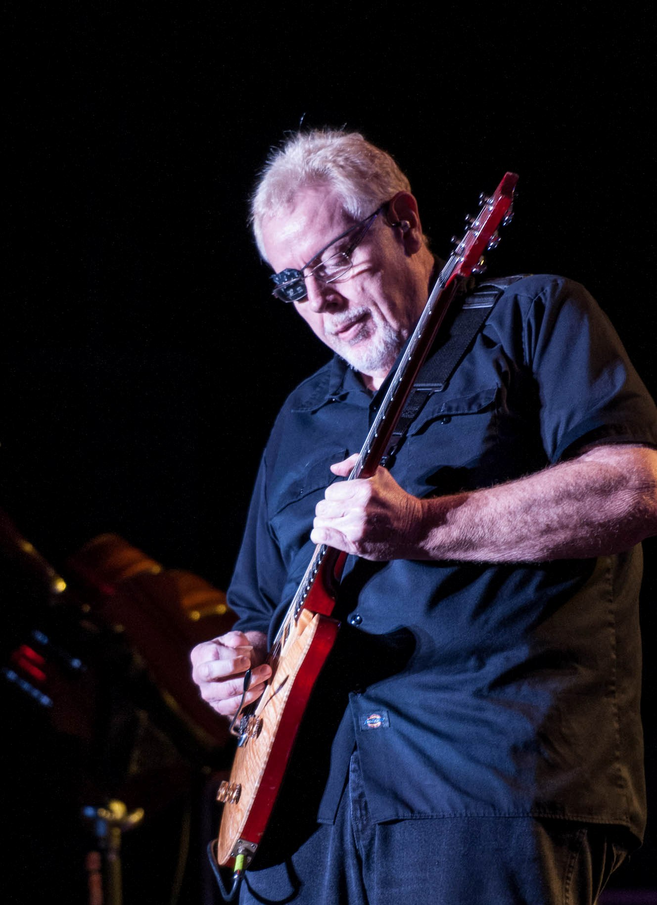 Richard Williams of Kansas, 2012